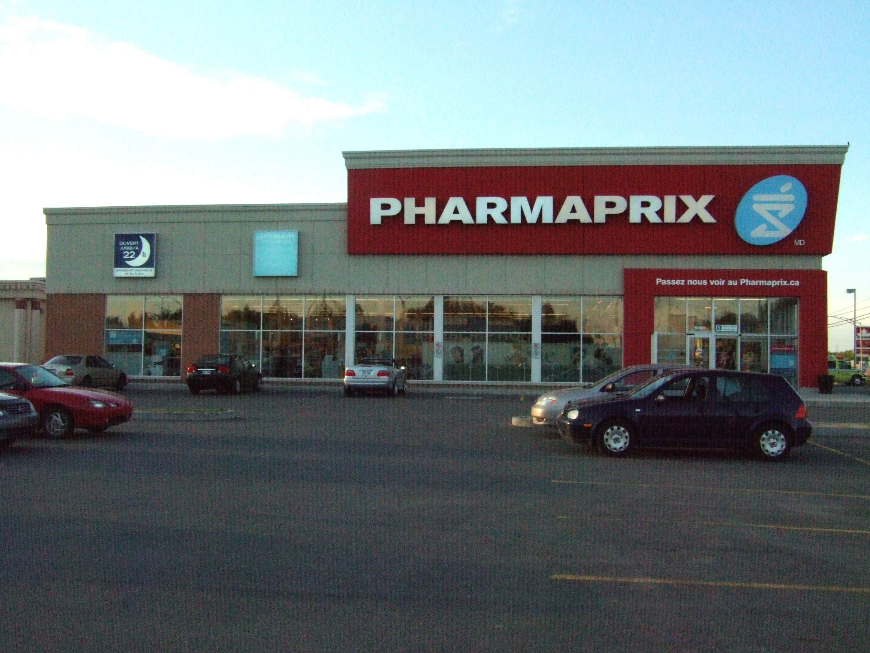 Pharmaprix Drugstore in Quebec